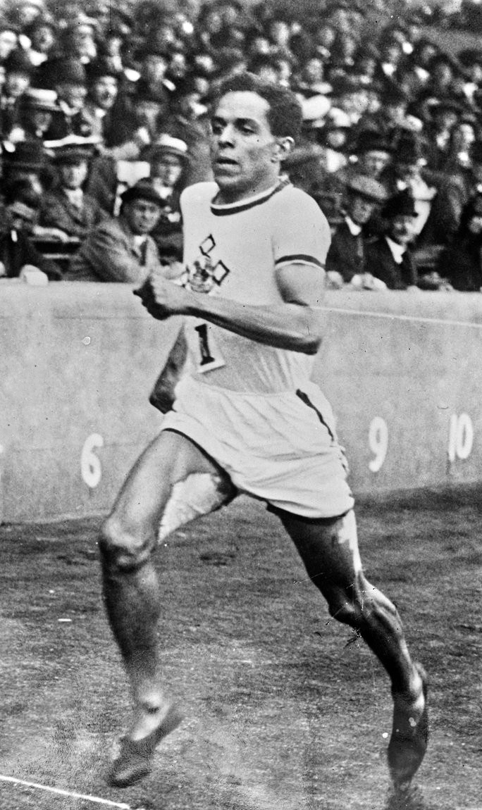 Edwards [i.e. Harry Edward, championnat d'Angleterre d'athlétisme, Stamford Bridge, 1-2 juillet 1922] : [photographie de presse] / [Agence Rol]